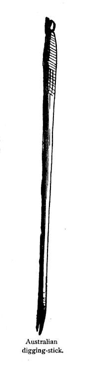 19th century knowledge primitive tools, Australian digging stick, katta